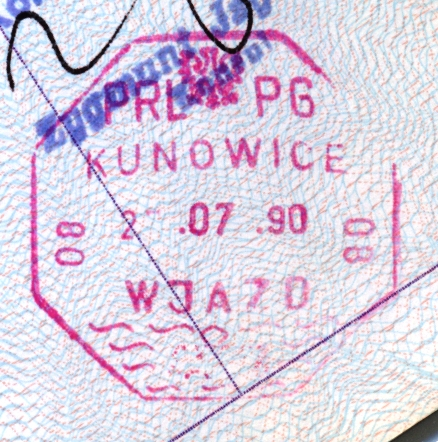 Pre-Schengen passport stamp from Kunowice, Poland. Stamp still bears the official name Polish People's Republic (PRL or Polska Rzeczpospolita Ludowa).